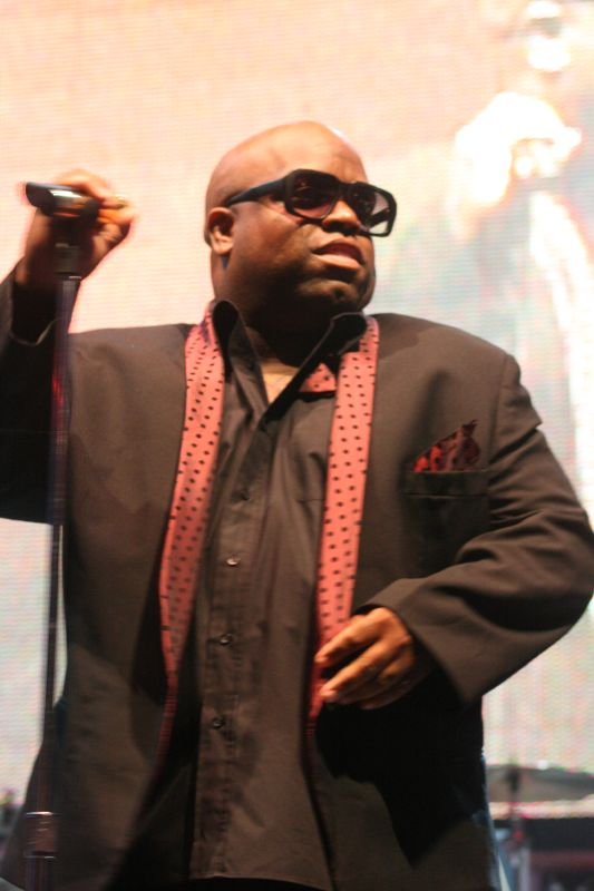 CeeLo Green at the SoCo Music Fest